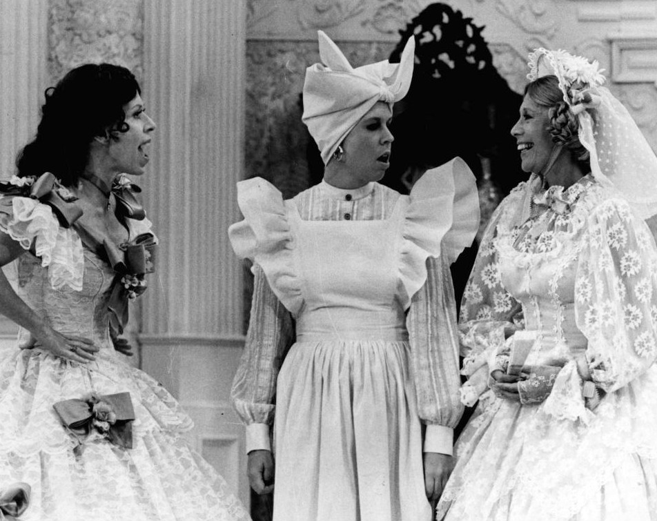 Photo of a scene from the ongoing "Went With the Wind" sketch on The Carol Burnett Show. Pictured from left are Carol Burnett, Vicki Lawrence and guest star Dinah Shore.